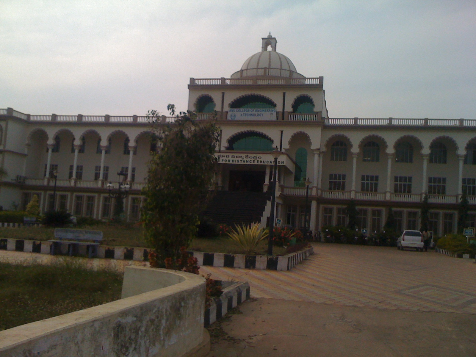 Acharya Nagarjuna University